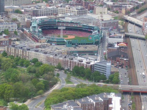 I took this picture of downtown of Boston from the 54th floor of the Prudential Tower.